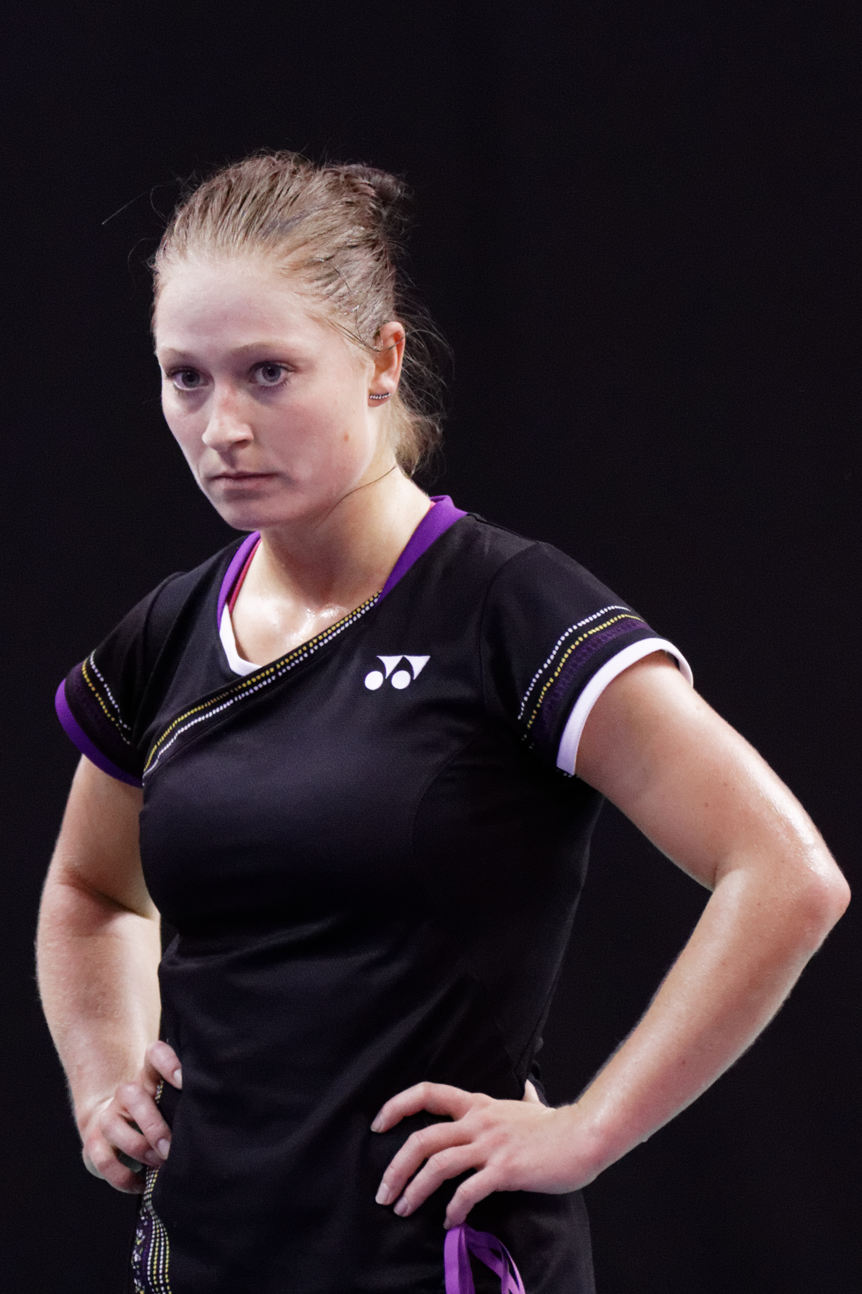 2013 French open. Women's doubles eightfinal. Line Damkjær Kruse and Marie Røpke vs Jang Ye-na and Kim So-young.